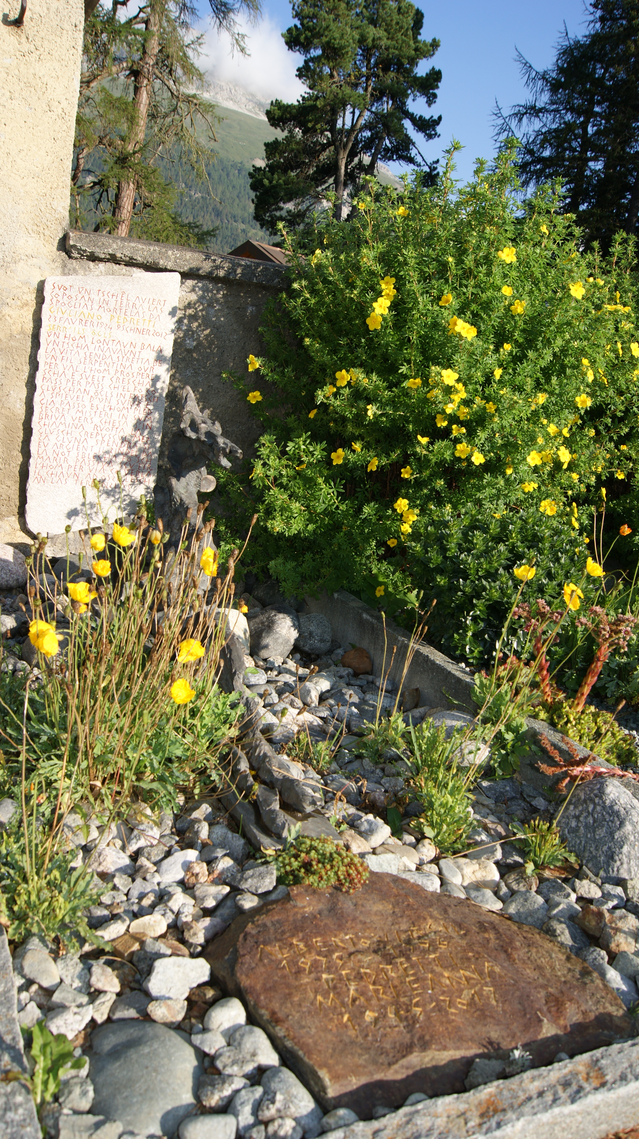 San Gian church in Celerina-Schlarigna in Grisons, Switzerland. Tomb of Giuliano Pedretti (February 23, 1924, † January 9, 2012).